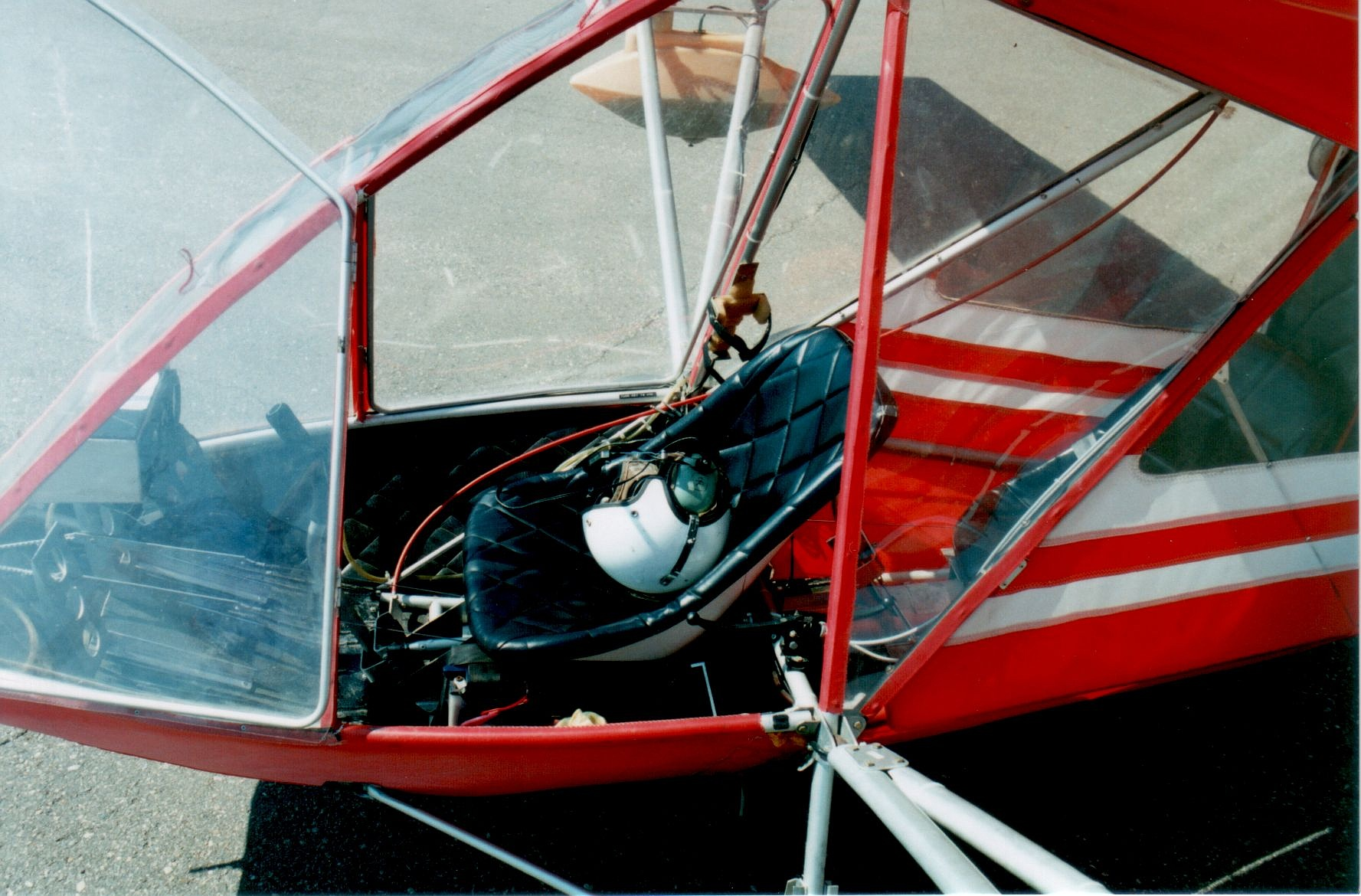 A Birdman Chinook 2S showing the cockpit and door